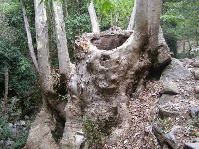 A coppiced tree in the Troodos Mountains in west-central Cyprus.